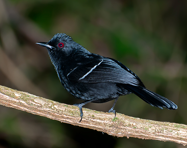 A White-shouldered Fire-eye in Piraju, São Paulo, Brazil.